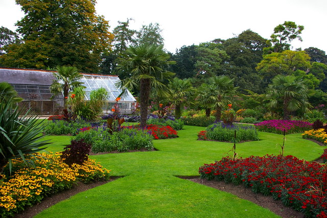 Walled garden Calke Abbey